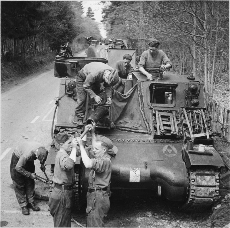 The British Army in the United Kingdom 1939-45 Priest 105mm self-propelled gun of 303rd Battery, 76th Highland Field Regiment, 3rd Infantry Division, Emsworth, Hampshire, 29 April 1944.